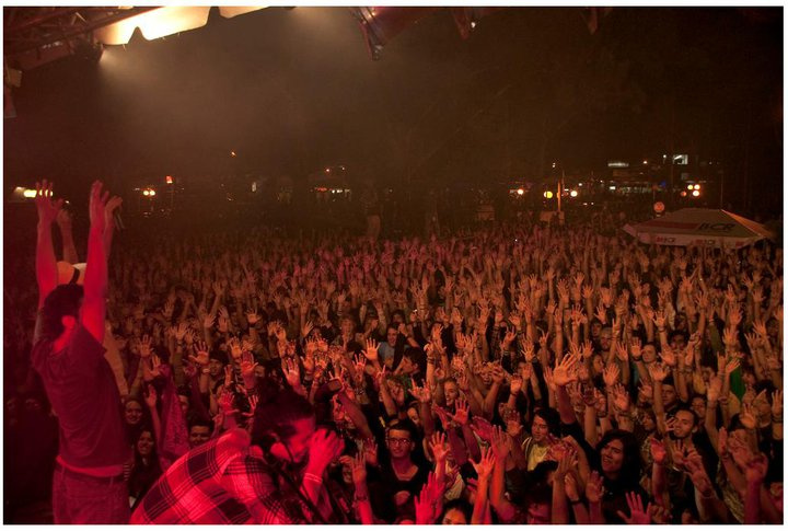 Cocofunka durante su concierto en la semana de bienvenida de la UCR 2011